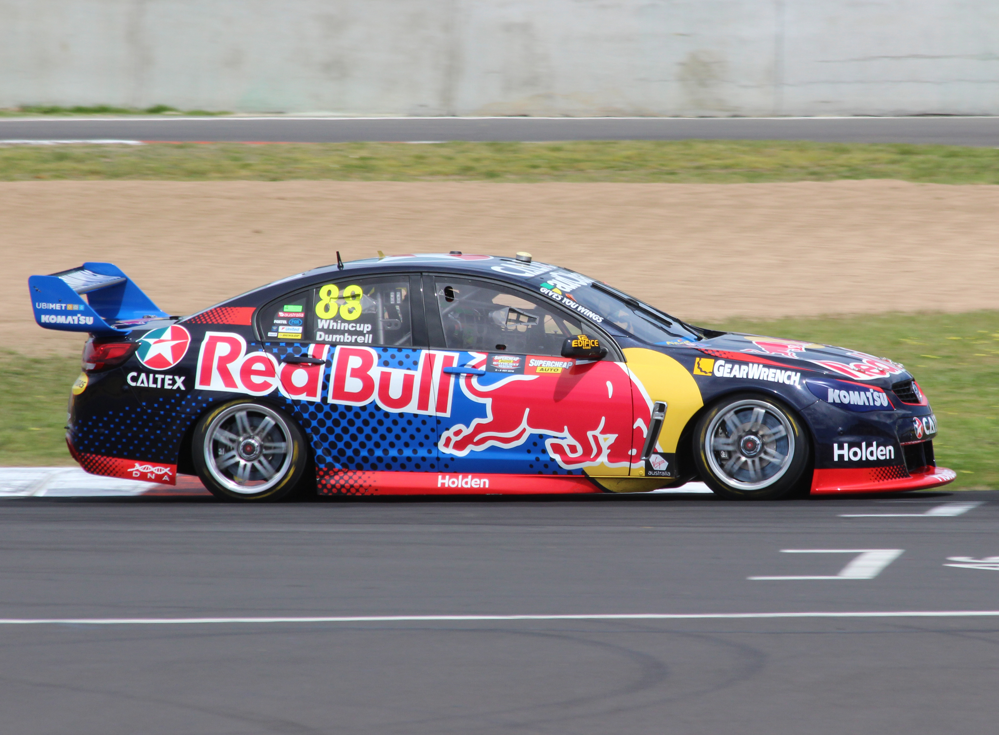 The Triple Eight Holden VF Commodore of Jamie Whincup and Paul Dumbrell during the 2016 Supercheap Auto Bathurst 1000.